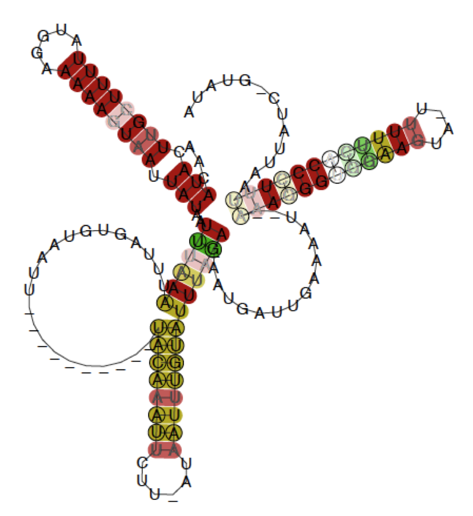 Predicted structure of the Rickettsia_rpsL-leader, obtained by RNAalifold.